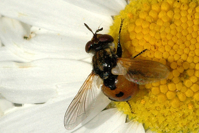 Picture taken in Commanster, Belgian High Ardennes . Species: male Gymnosoma nudifrons